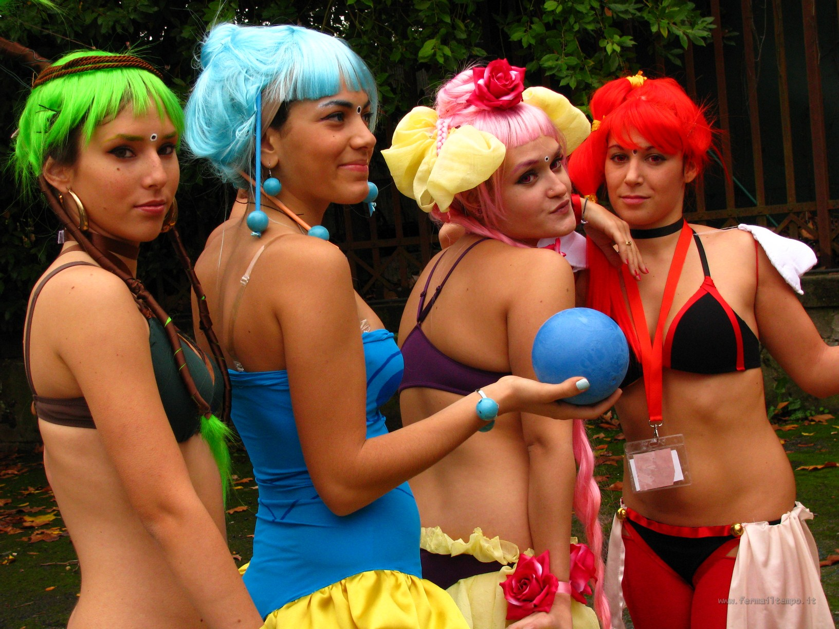 Cosplay of the Amazon Quartet